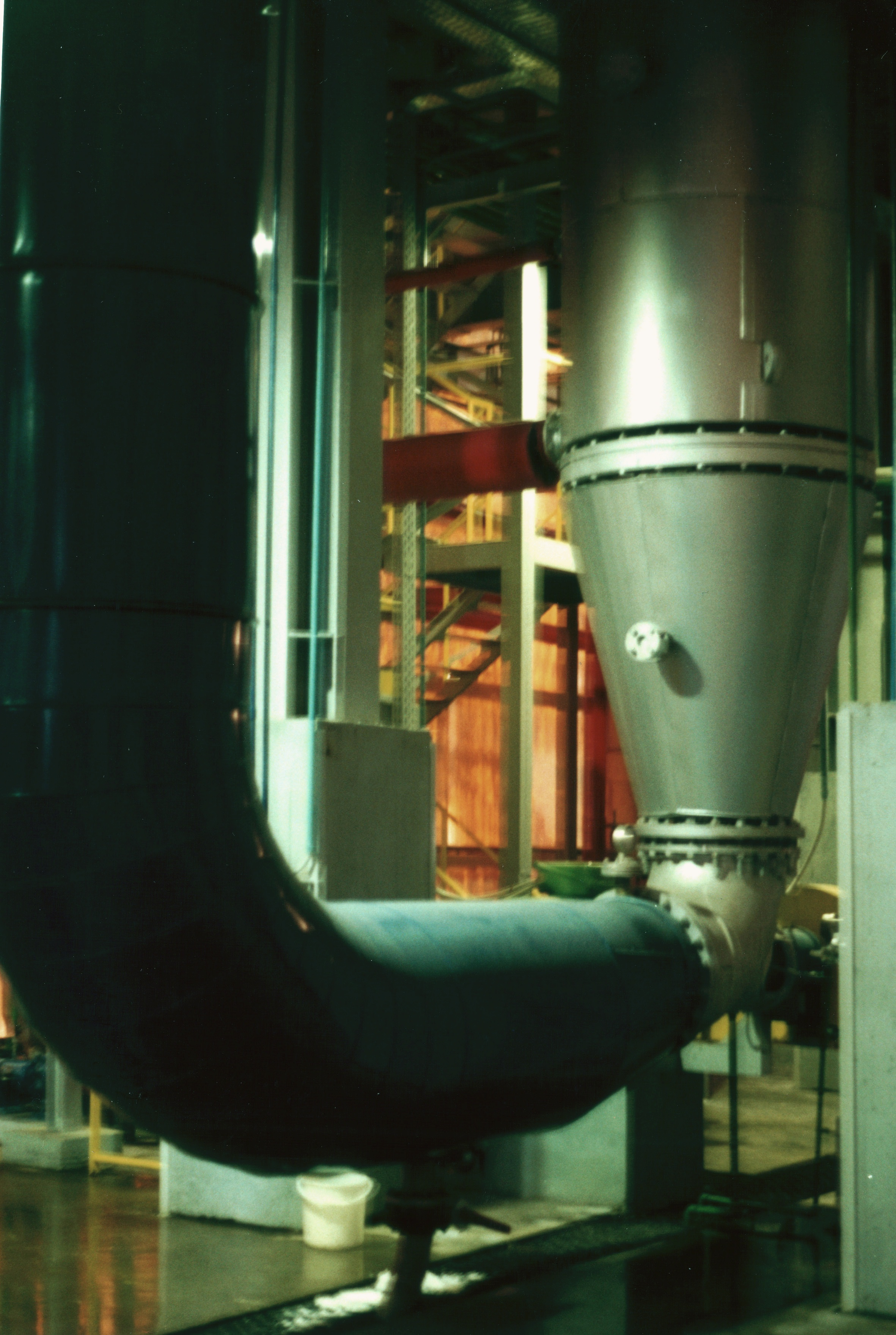 Application of an axial flow pump in a forced circulation evaporator